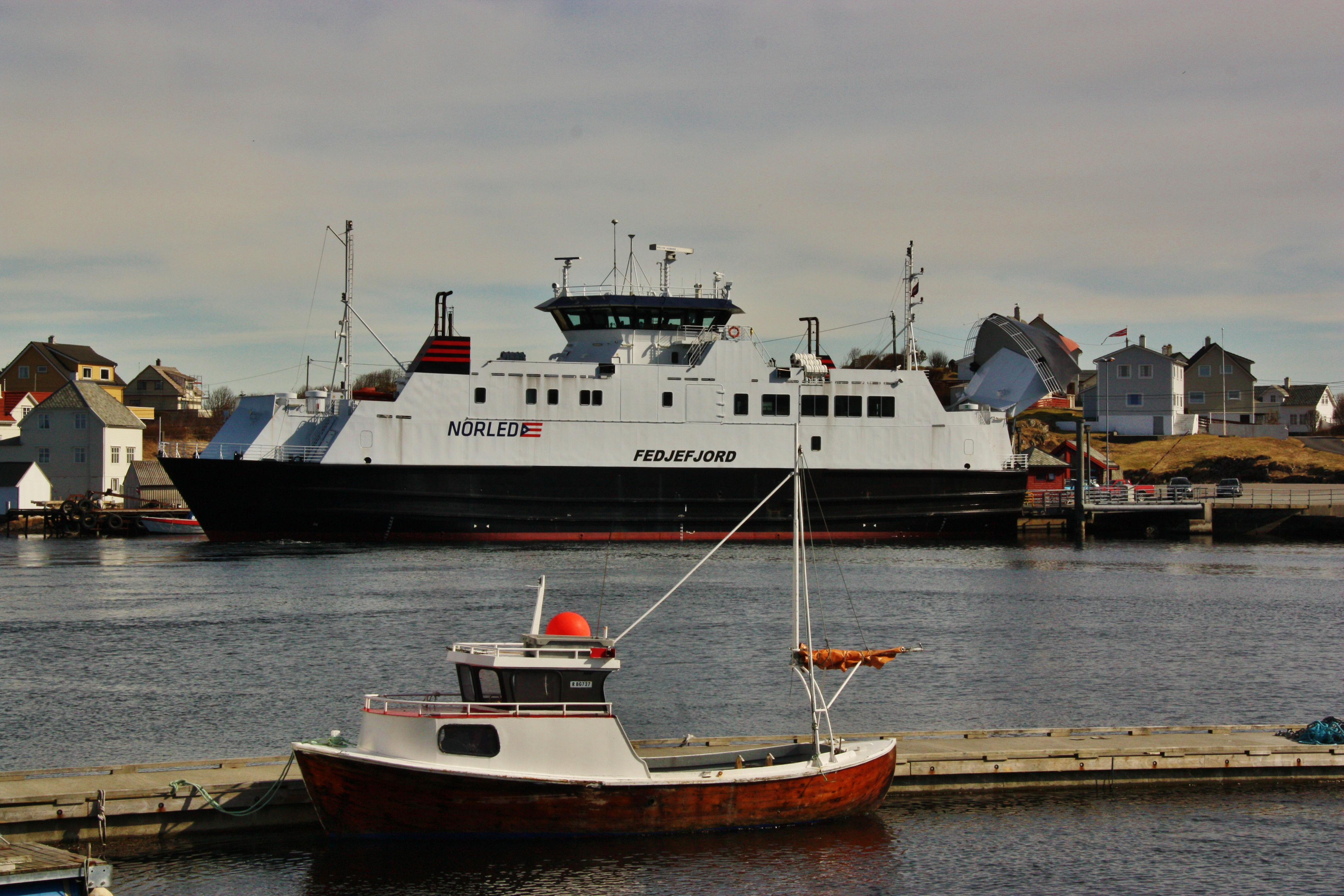 MF Fedjefjord in Fedje